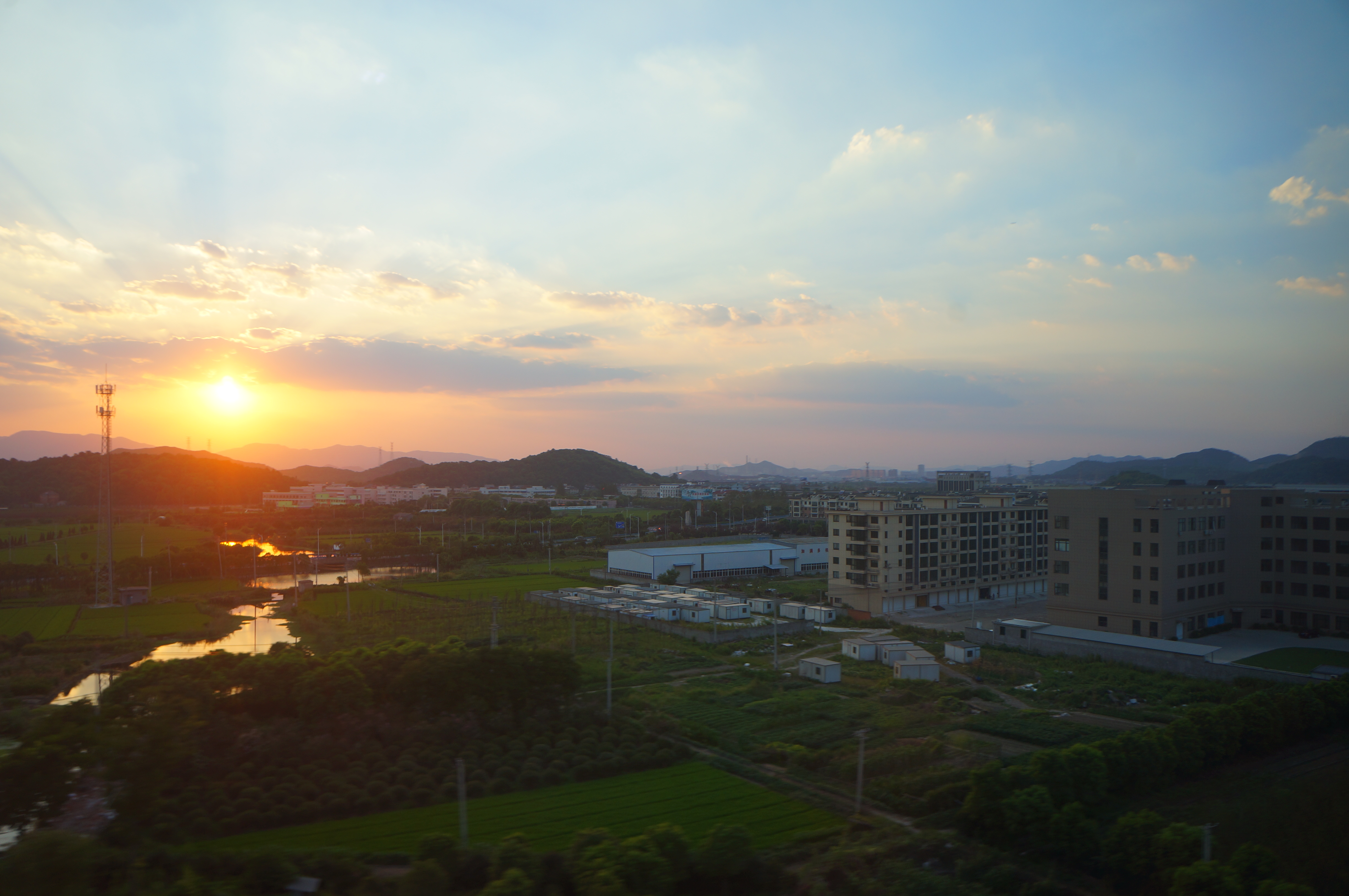 201608 Jinhua, Xiaoshan 进化